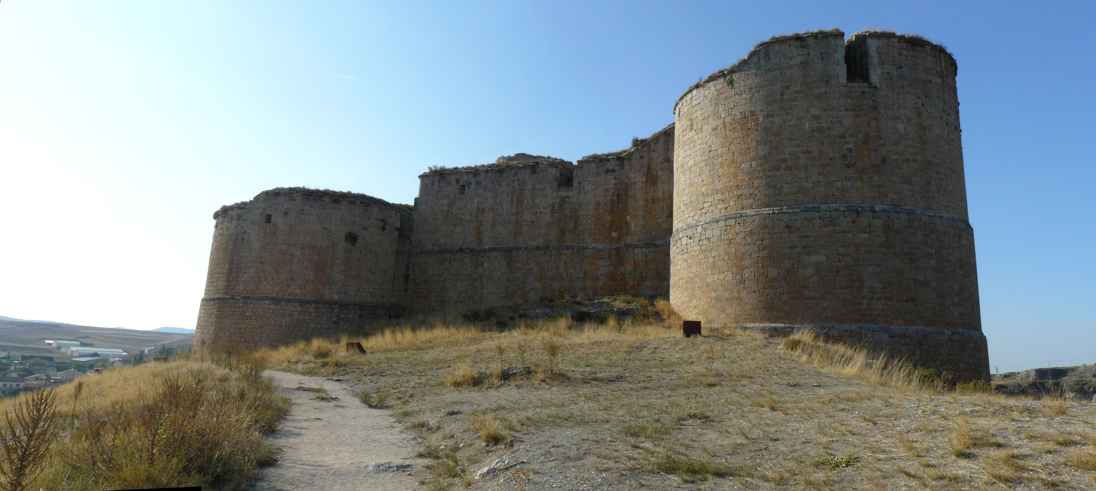 16th century fortress at Berlanga de Duero, Soria (Spain), as seen fron the Southeast.